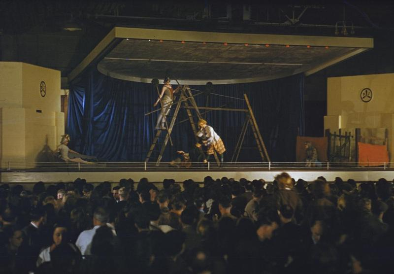 The Ballet Rambert Visiting An Aircraft Factory in Britain Dancers from the Ballet Rambert, under the auspices of CEMA (Council for the Encouragement of Music and the Arts), visiting an aircraft factory in the Midlands. Photo shows: Lunchtime in the canteen. The factory workers seated at their tables watching a production of 'Peter and the Wolf ' on the stage. A narrator unfolds the plot during the performance.